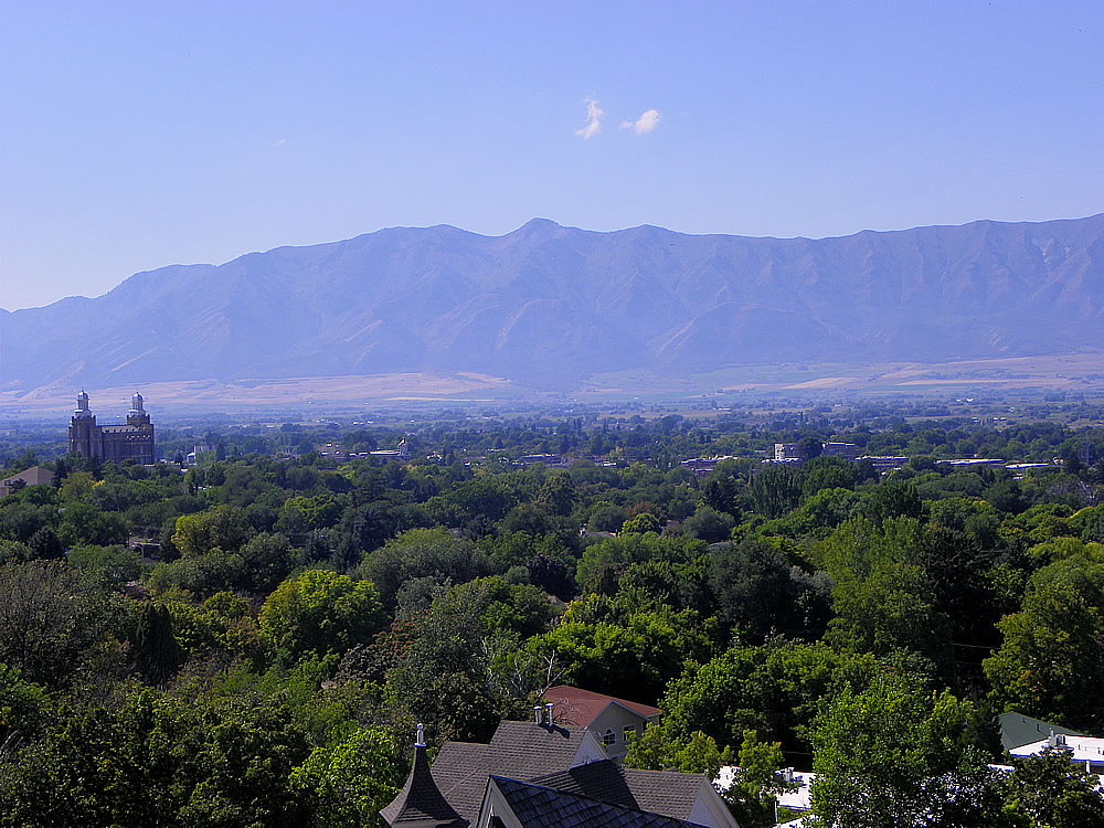 A partial view of Cache Valley, Utah, with the Wellsville mountains in sight. Partially overlooking Logan, Utah and part of downtown as well as the Logan Utah Temple, as seen from Utah State University.